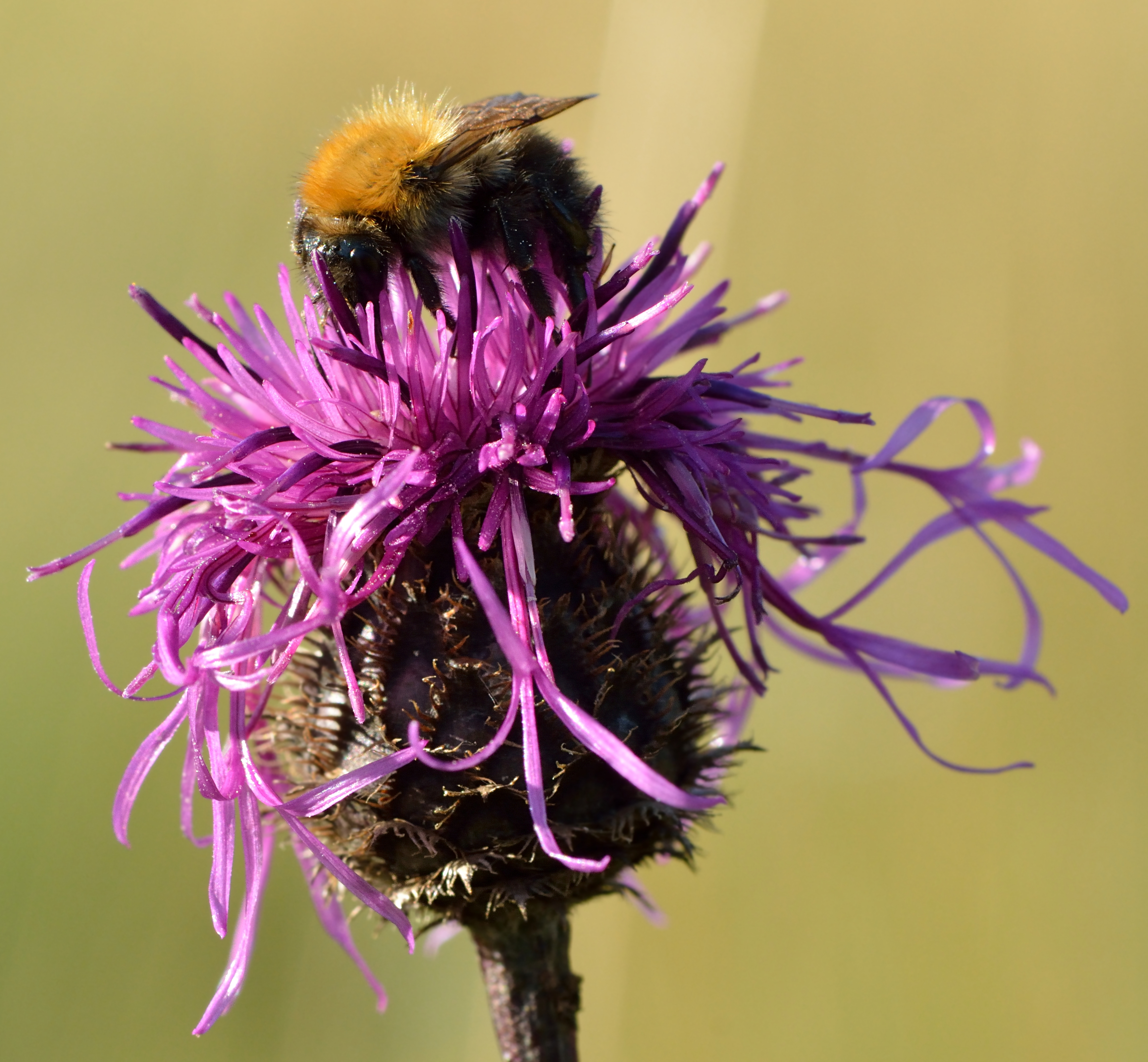 The common carder bee (Bombus pascuorum) on the greater knapweed (Centaurea scabiosa). Keila, Northwestern Estonia.